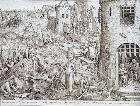 The Seven Virtues - Hope, Plume et encre, 22,5 x 29,5 cm. Berlin, Kupferstichkabinett